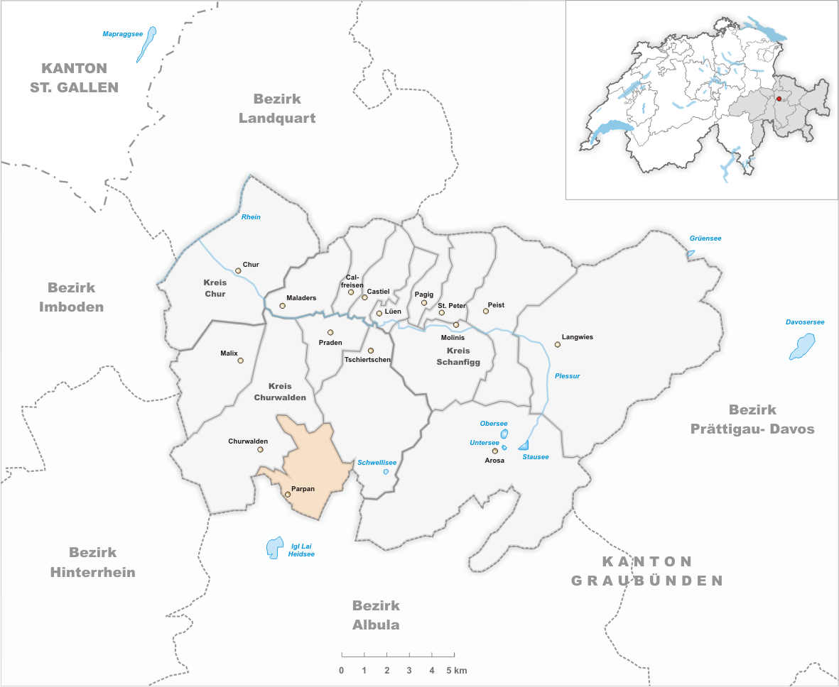 Municipality Parpan